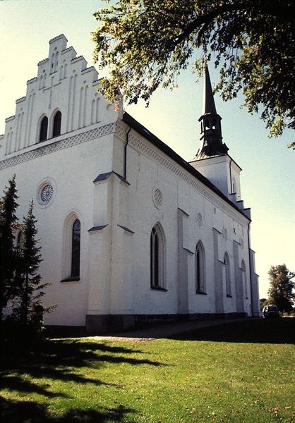 Brahetrolleborg Church in Faaborg-Midtfyn Kommune from apr. 1200